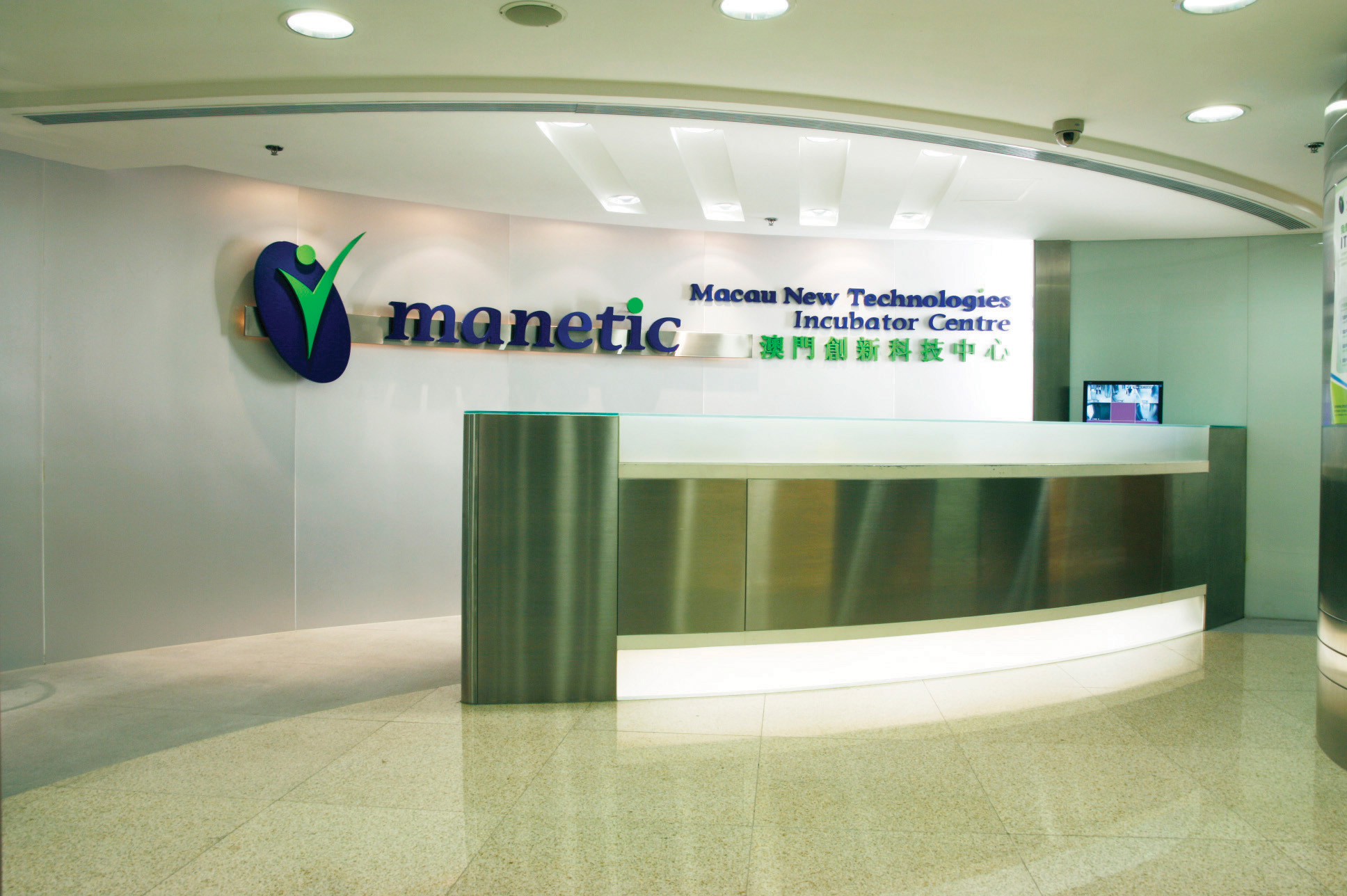 Reception of Manetic Centre